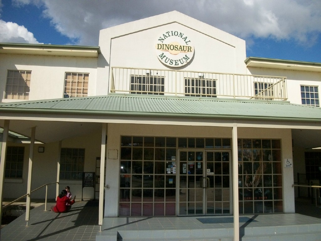 Dinosaur Museum, Canberra, Australia